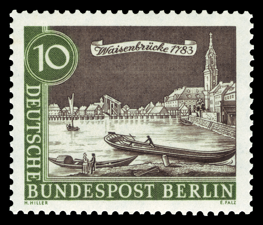 Stamp series Historical Berlin